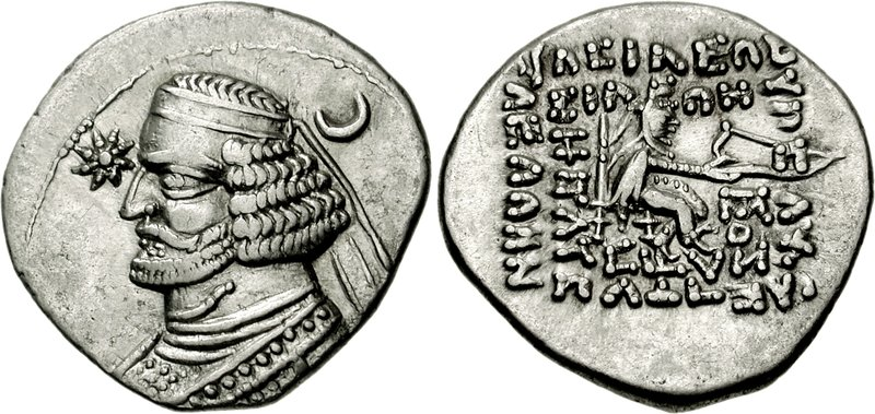 Coin of Orodes II, Mithradatkert (Nisa) mint